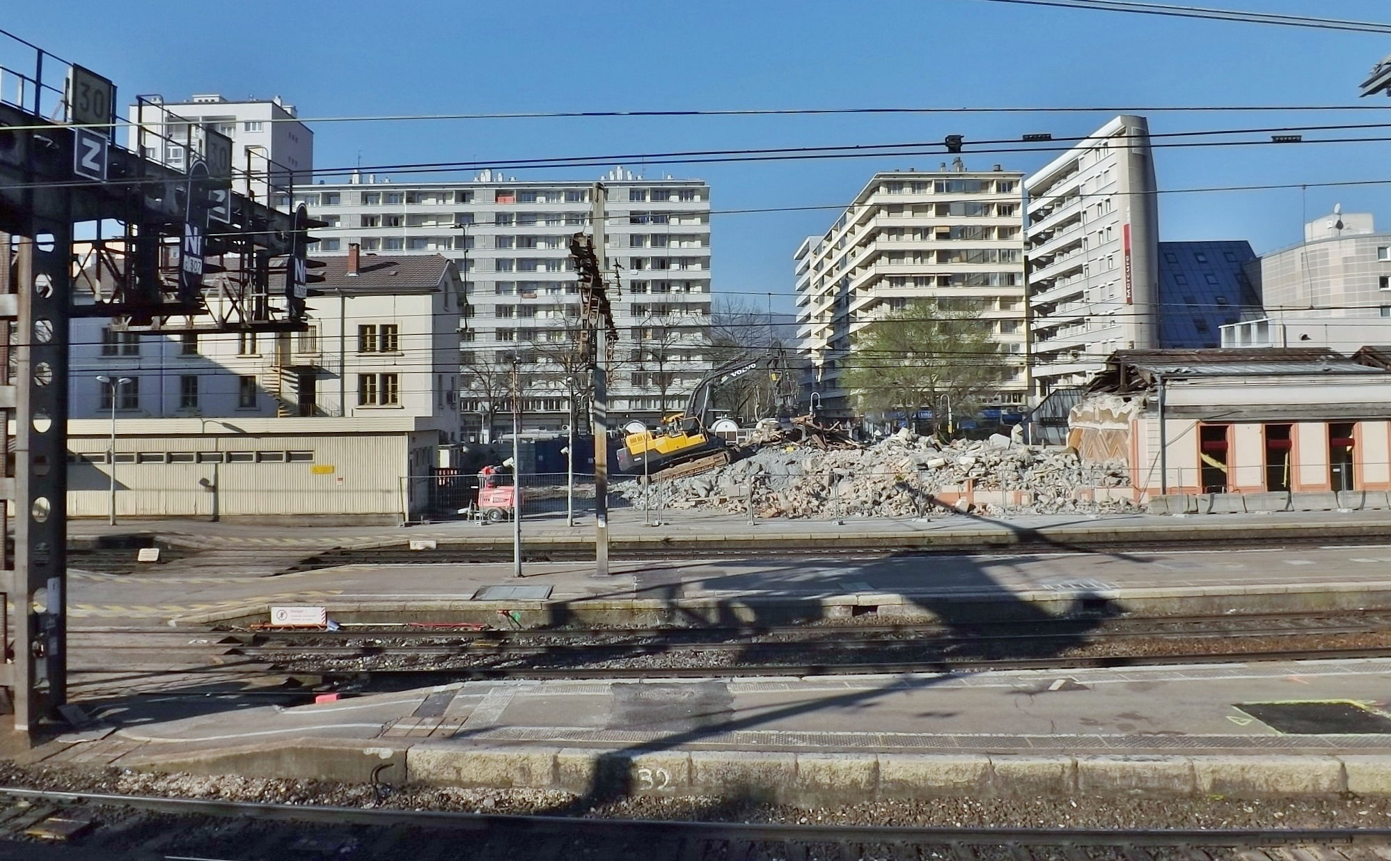 Demolition of the buffet de la gare at Chambéry railway station, in Savoie, France.